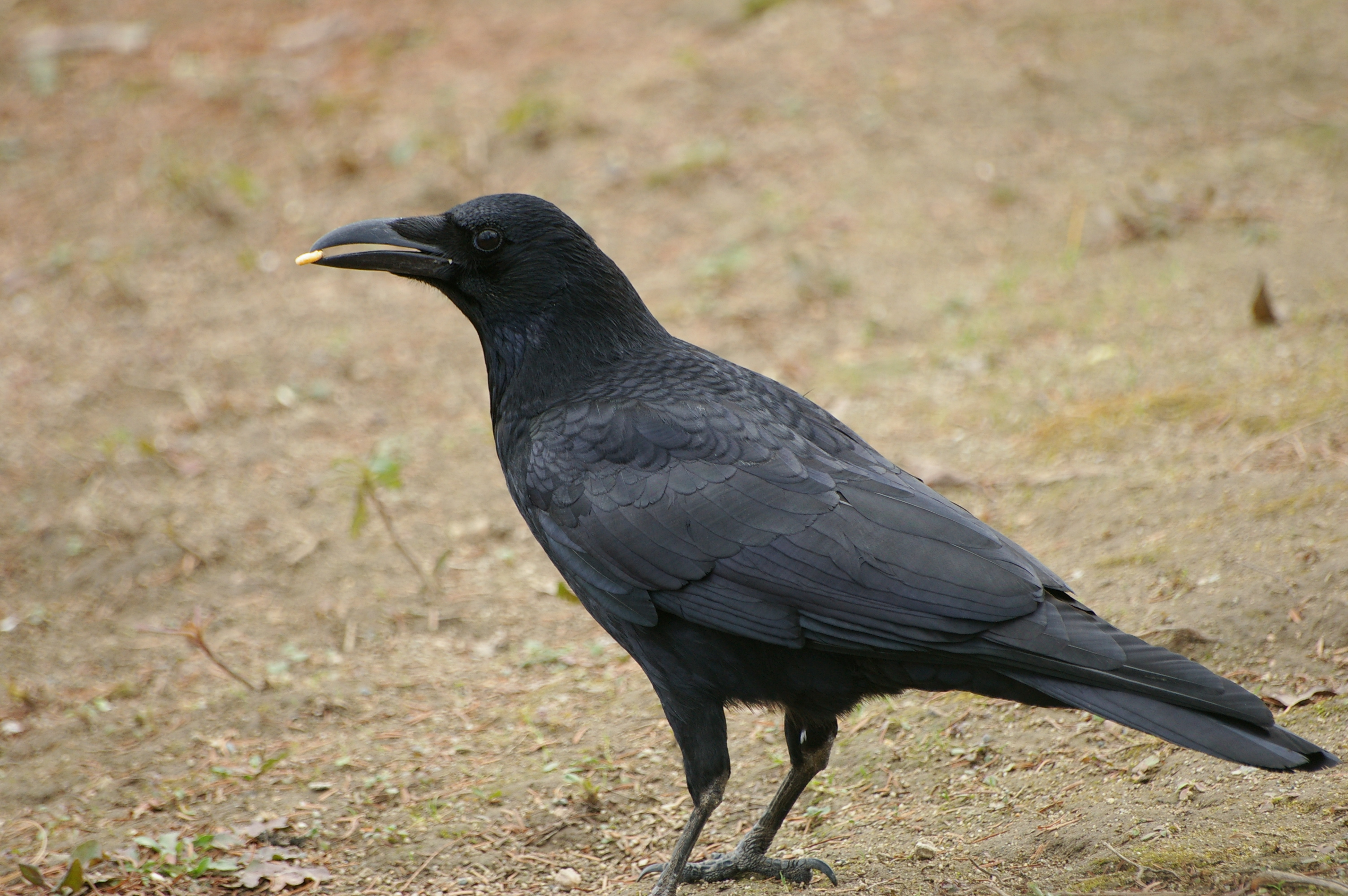 Oriental Carrion Crow Corvus corone orientalis, Itami, Hyogo, Japan.